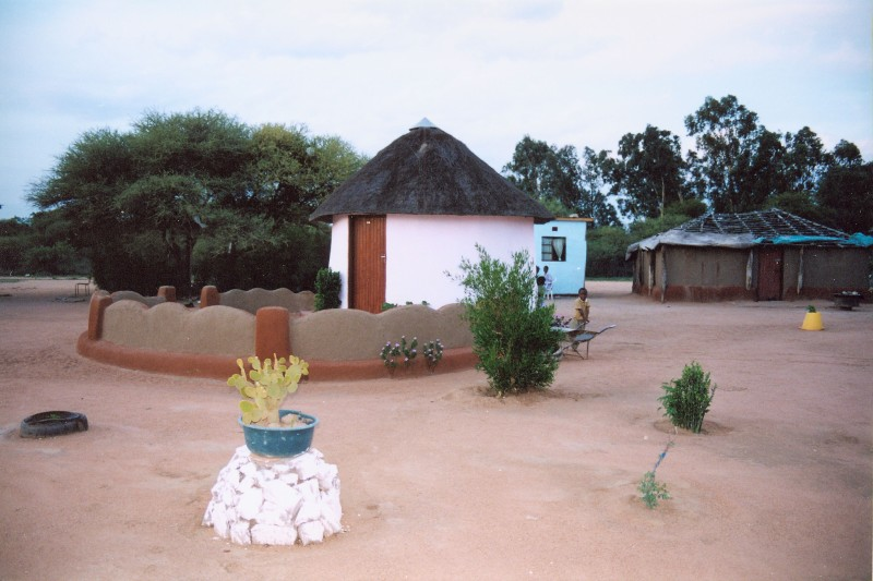 Tradition house in Mahalapye, Botswana. Author: Tomas Petersson. 2004.